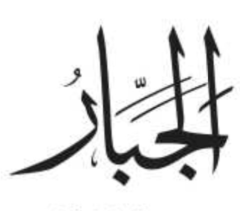 Al jabar / Aljabar / Dominator Is a name of Allah